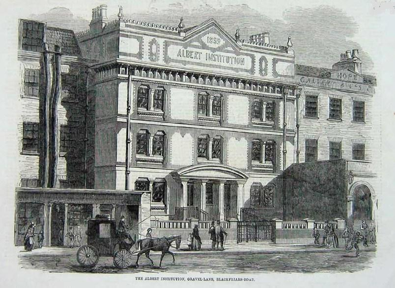 Engraving of The Albert Institution, Gravel Lane, Southwark, London, from the Illustrated London News.